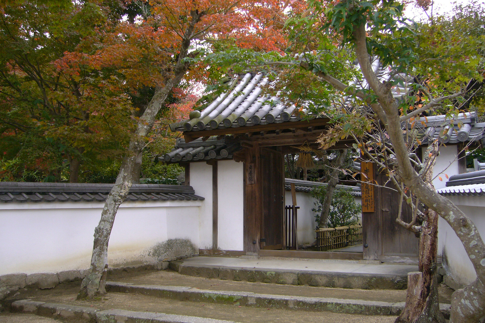 Anyoin, Kobe, Hyogo prefecture, Japan